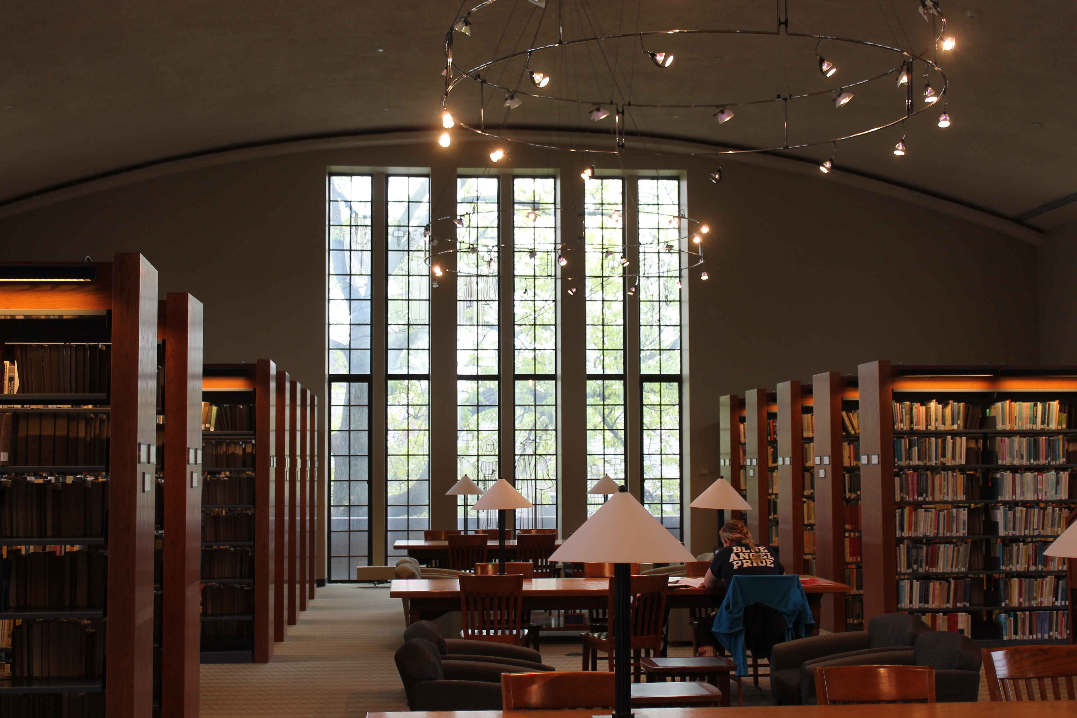 Main reading area on the library's 2nd floor